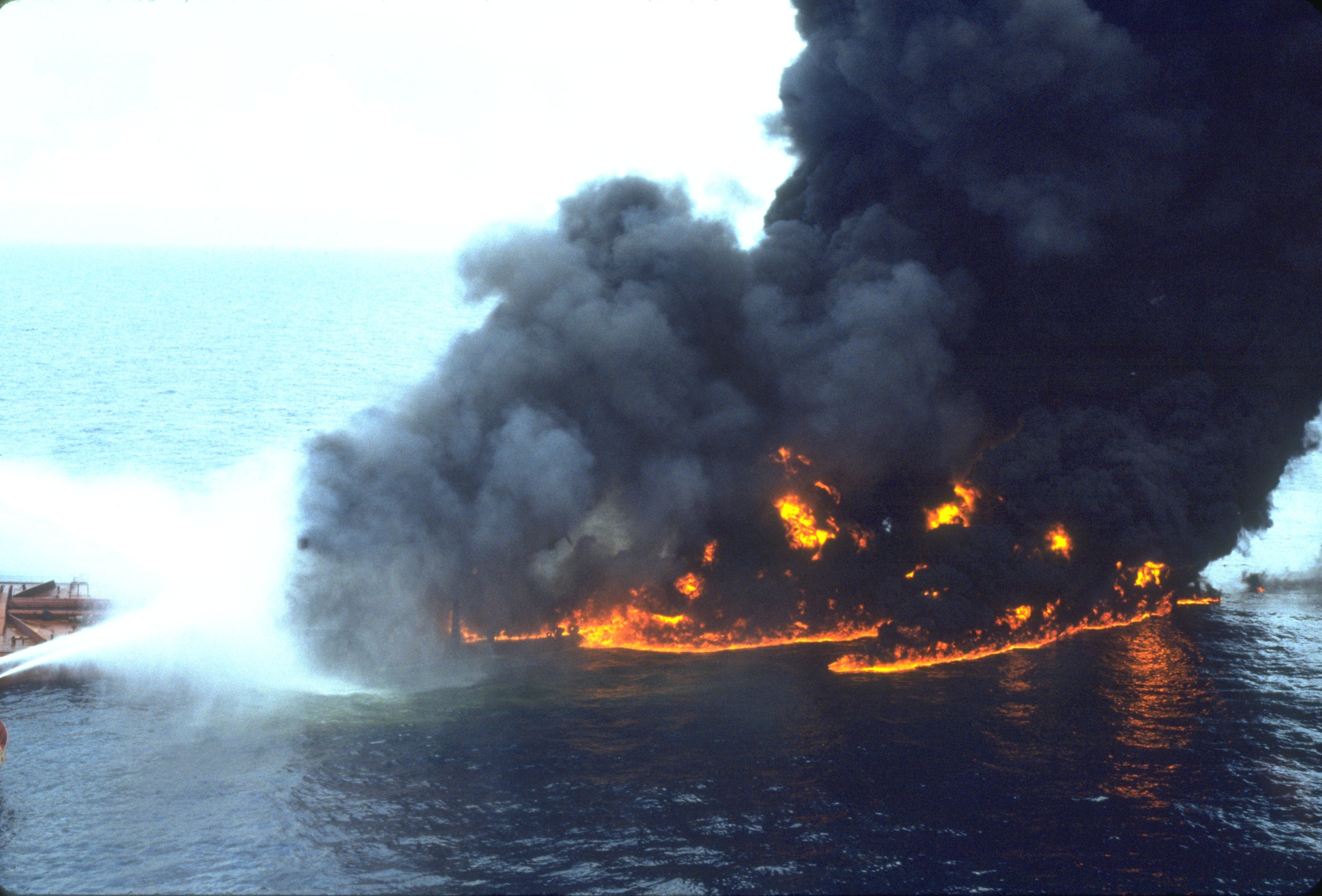 The tanker Megaborg oil spill occurred as the result of an accident during lightering operations with a subsequent fire. 5.1 million gallons of oil were released into the Gulf of Mexico. Texas, Gulf of Mexico, 68 miles SE of Galveston.